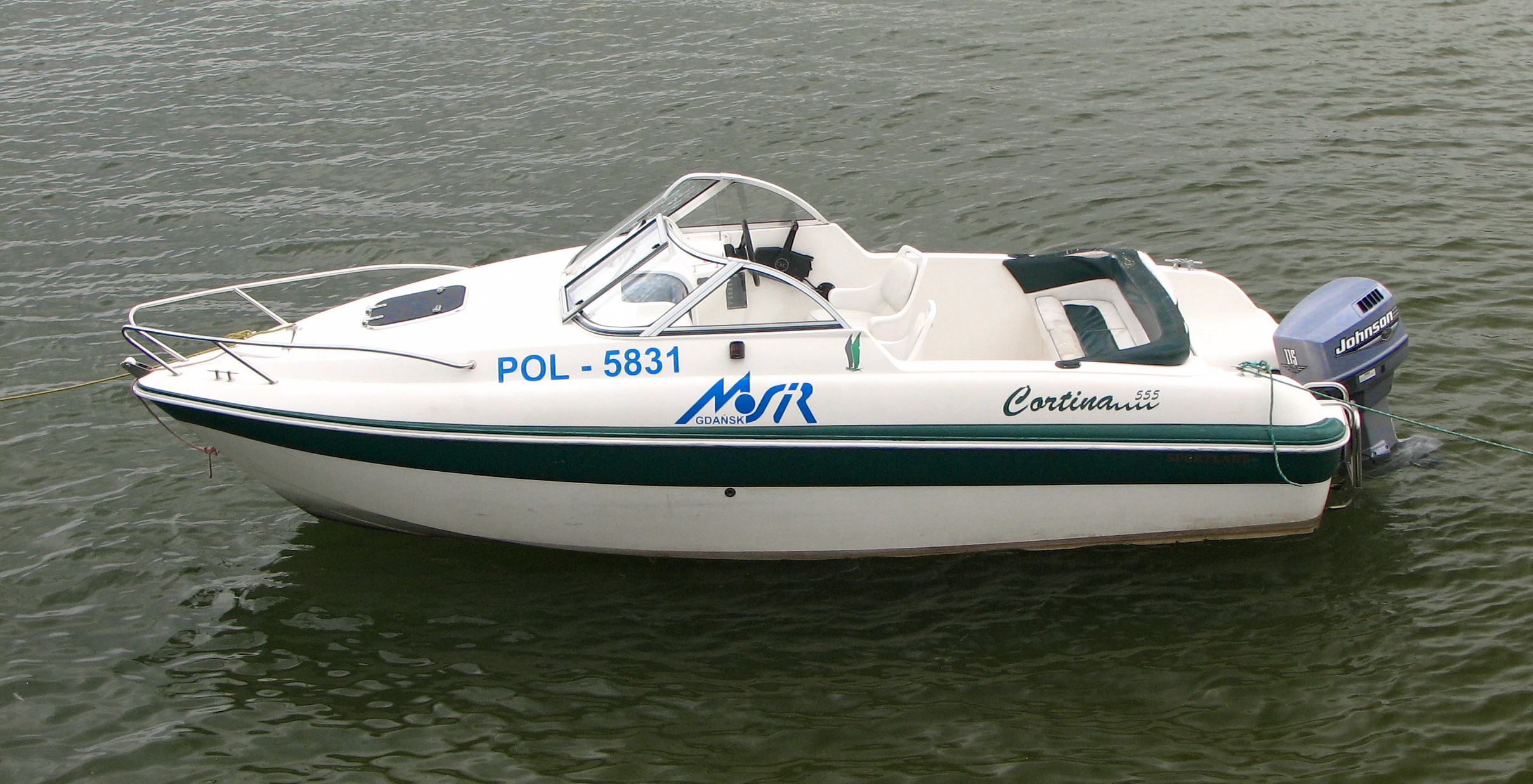 Motor boat in Gdansk-Brzeźno, Poland.